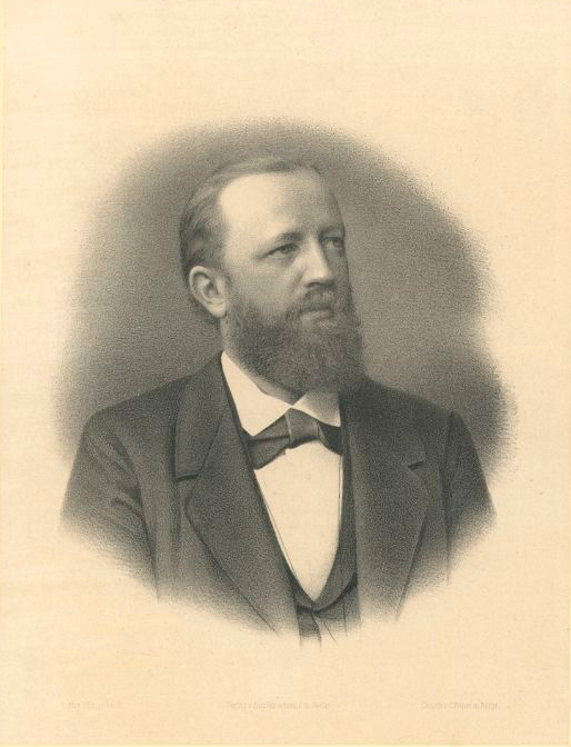 Karl Schroeder (1838–1887), German gynaecologist, lithograph